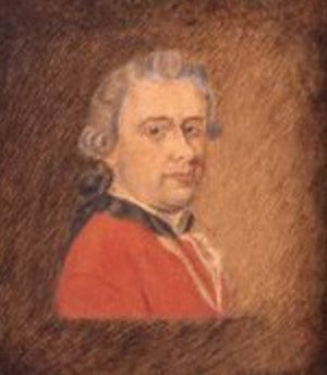 crop of self portrait of Thomas Patch